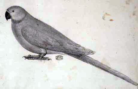 One of two known depictions of Psittacula exsul in life.